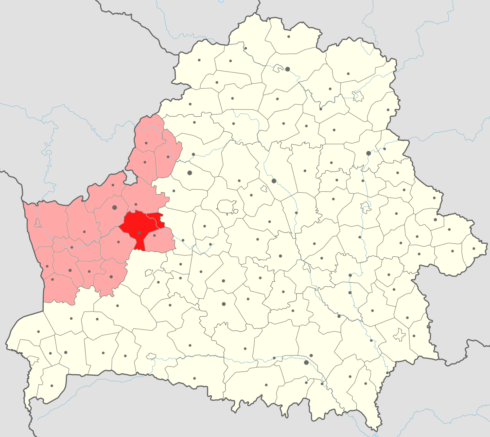 Map of Navahrudski rayon (in red) with Hrodna voblast' (in light red) on the map of Belarus.